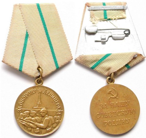 Soviet Medal for the defence of Leningrad (Медаль за оборону Ленинграда)